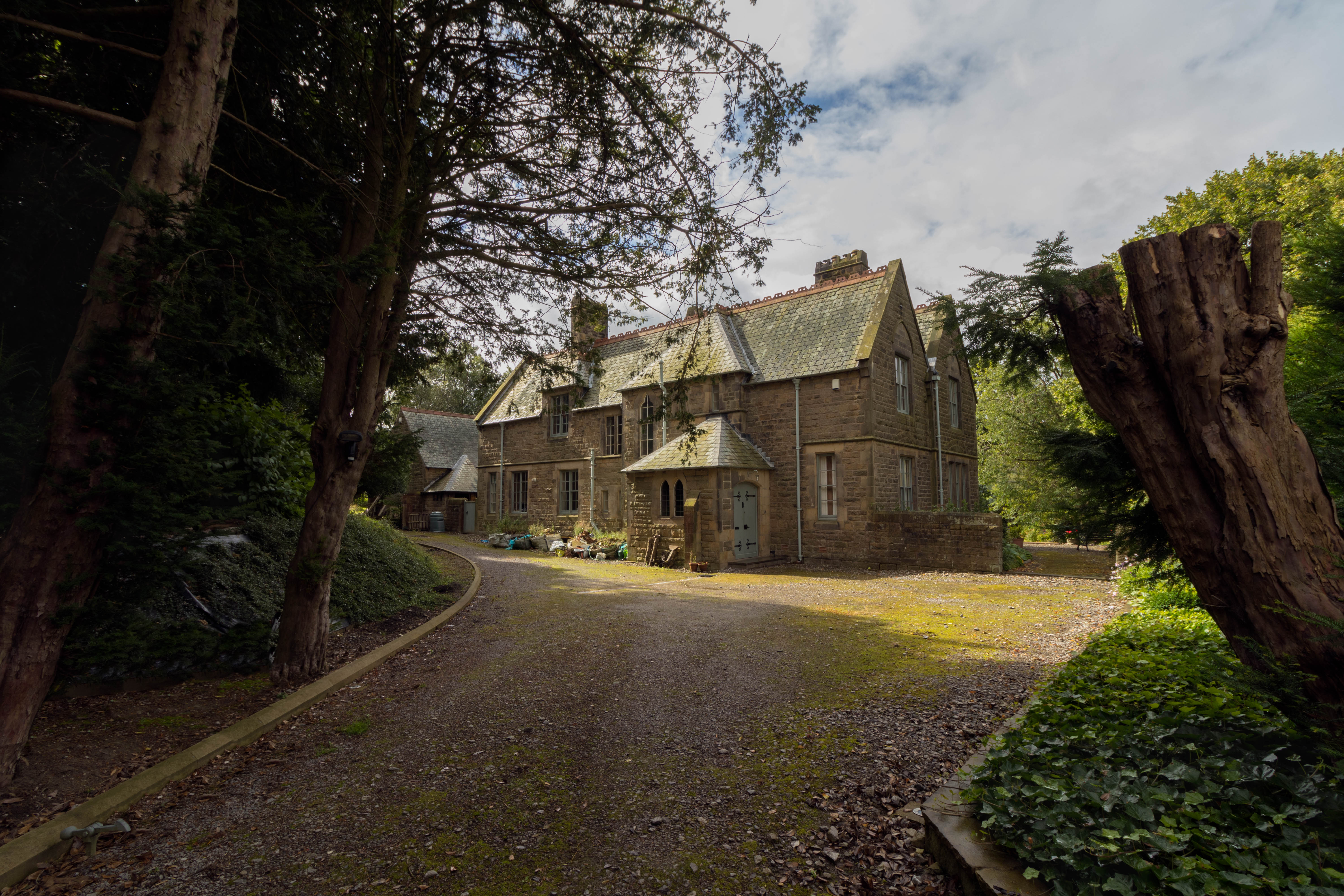 Rectory And Attached Coach House Wikidata has entry Q26380252 with data related to this item.Rectory and attached coach house. 1856-60 by William Butterfield. Coursed squared gritstone with ashlar dressings. Welsh slate roofs with stone coped gables with moulded kneelers. Board stone ridge stacks. Two and a half storeys. Asymmetrical elevations.